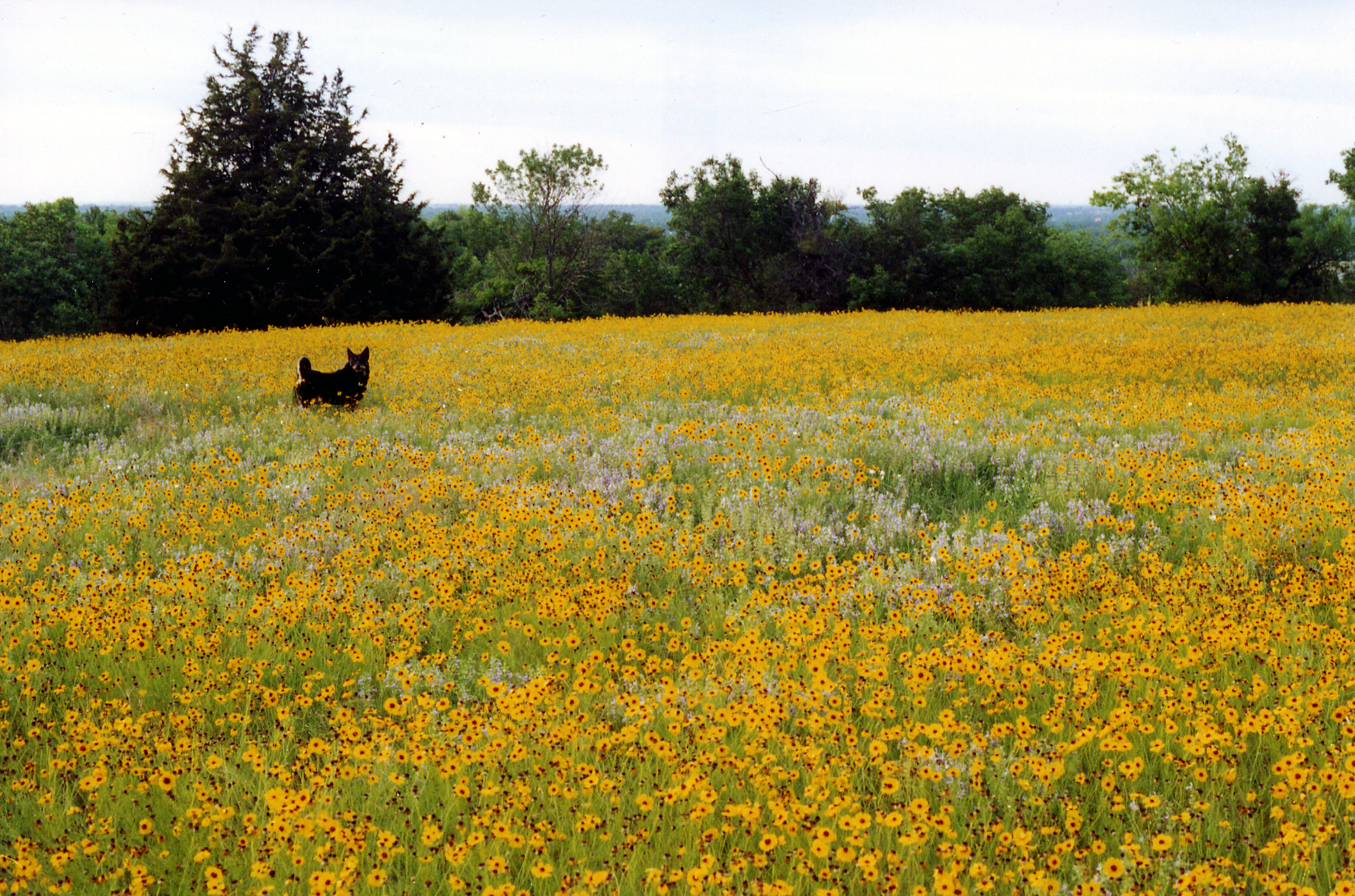 Tandy Hills Natural Area, 3400 View St., FW, TX, USA, 76103